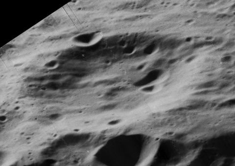 Oblique view of Wan-Hoo, on the far side of the moon, facing west.